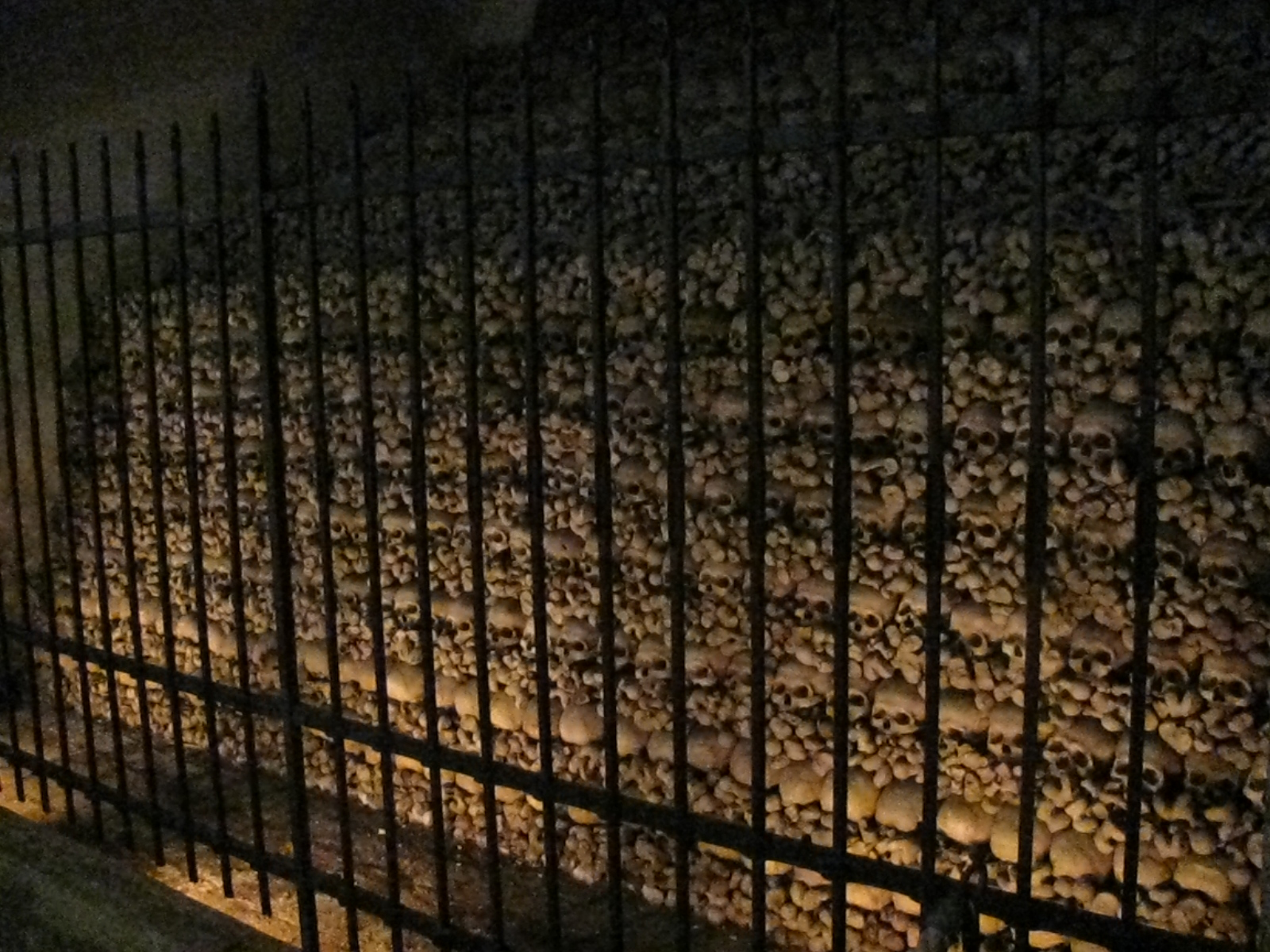 Skulls and bones of about 6000 persons, found around 1250, below the Stift St. Florian, Upper Austria. Probably the mortal remains of christians since the early christian time in that area.